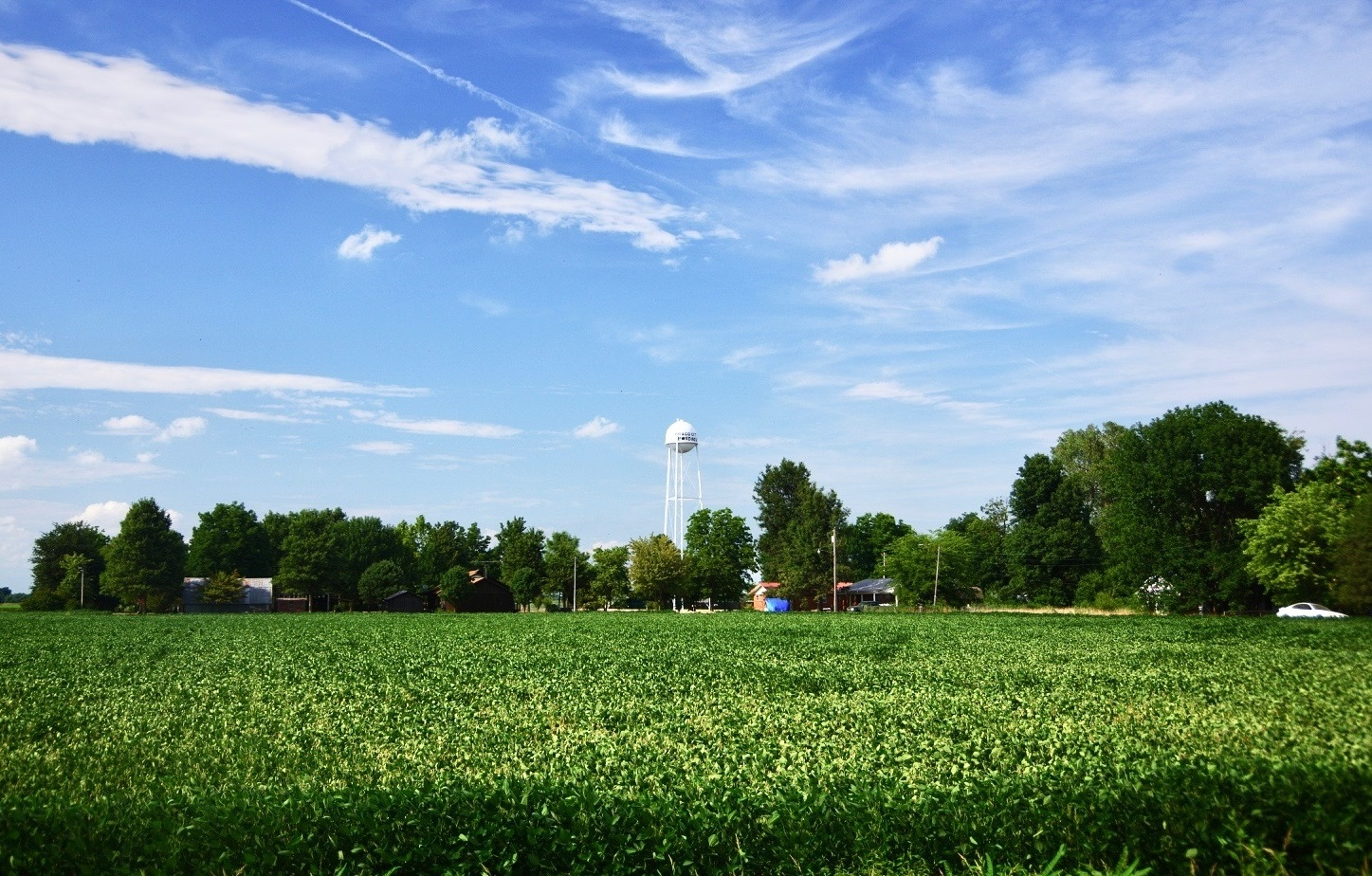 Bragg City, Missouri, United States, looking toward the water tower from 1st St. (County Road K).